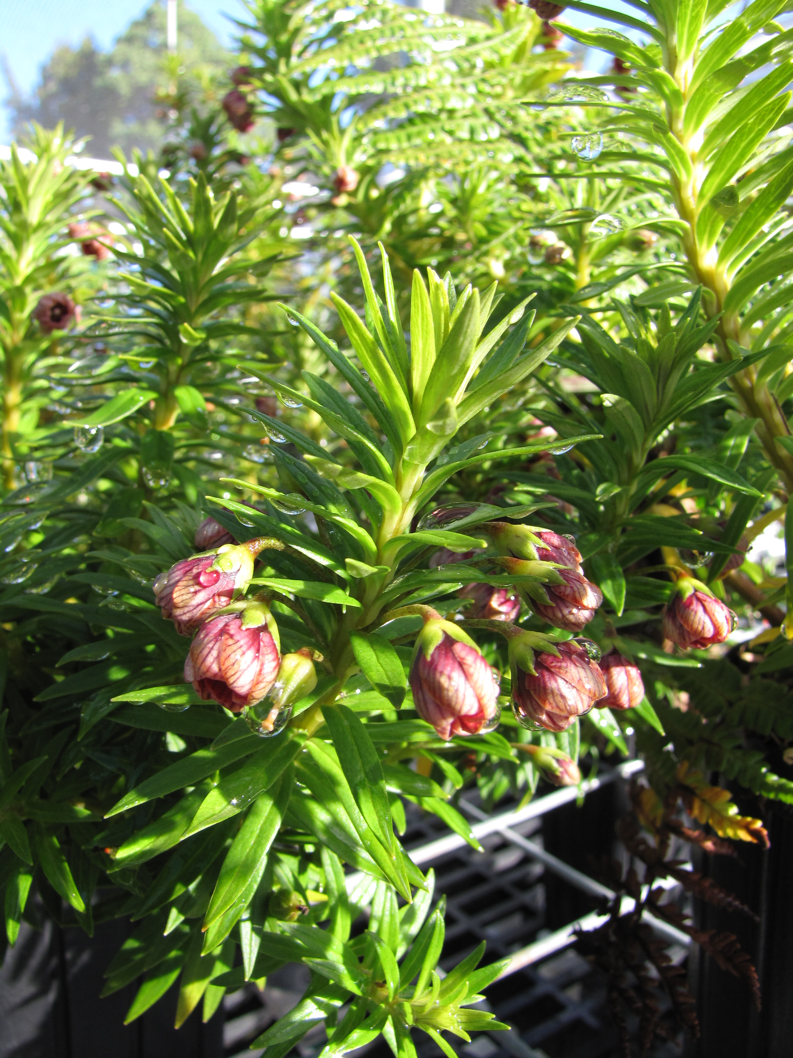 Lysimachia remyi (Lysimachia) Flowers and leaves at Greenhouse Haleakala National Park, Maui, Hawaii. November 25, 2011 111125-1401 - Image Use Policy Also placed in Myrsinaceae.